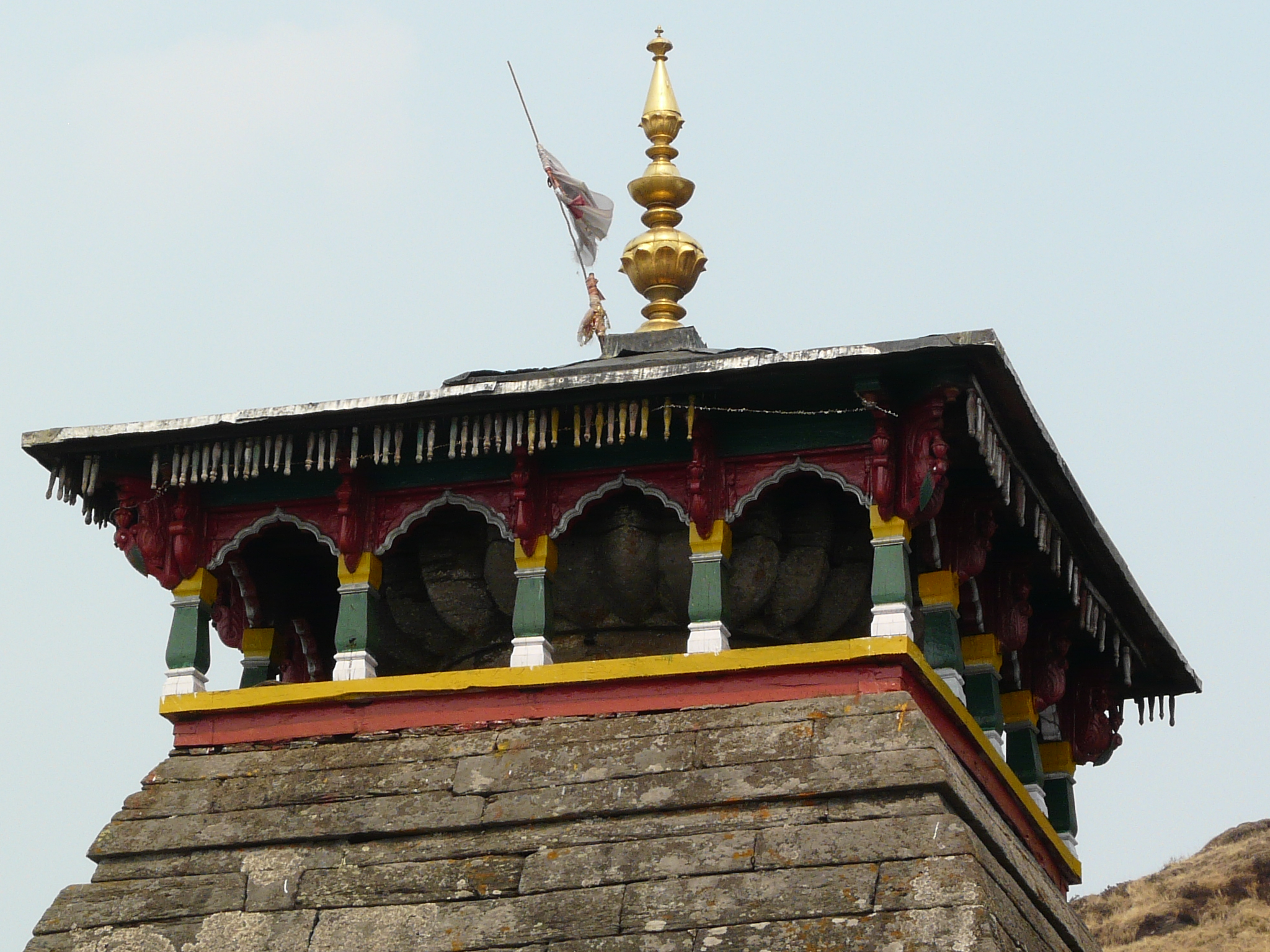 Details of the Tungnath temple, Uttarakhand.